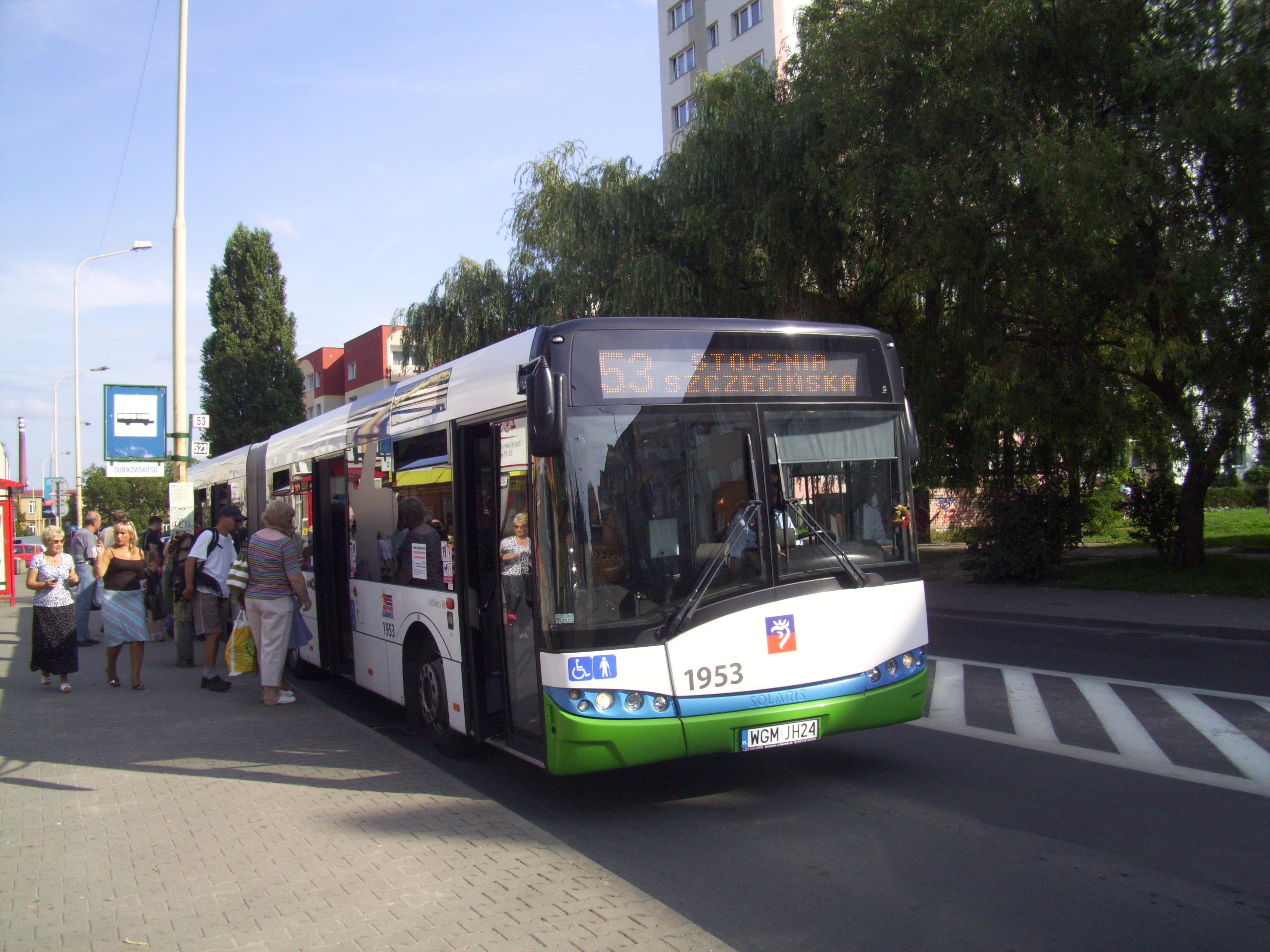 Solaris Urbino 18 Mk3 bus (#1953) in Szczecin, Poland. Built 2009. SPA Klonowica from Szczecin operator.